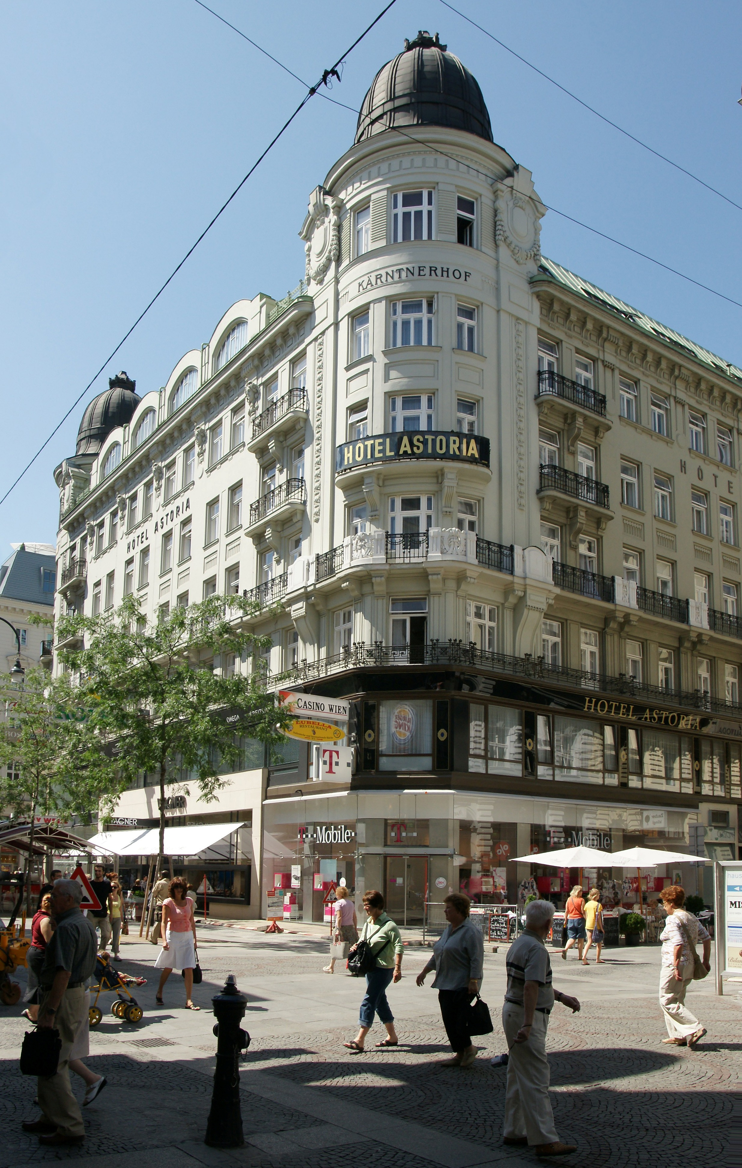 Hotel Astoria, Vienna, Austria